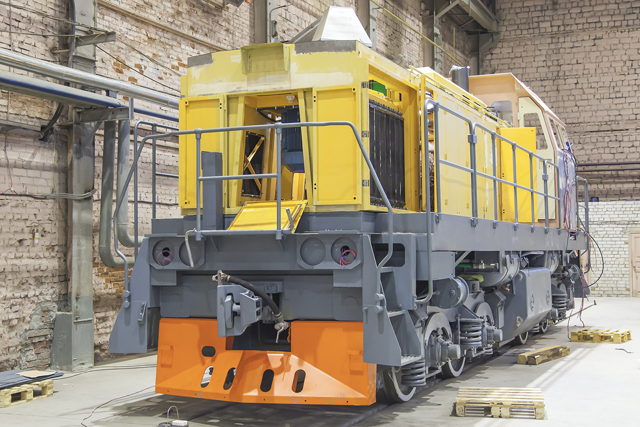 Diesel locomotive TGM4BUGMK-0659 during modernization. Russia, Kurgan region, JSC "Shadrinsk plant of automobile units"